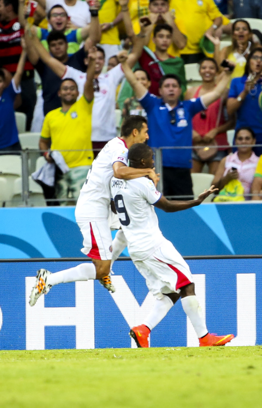 Uruguay and Costa Rica match at the FIFA World Cup 2014-06-14